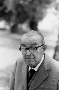 Max Petitpierre